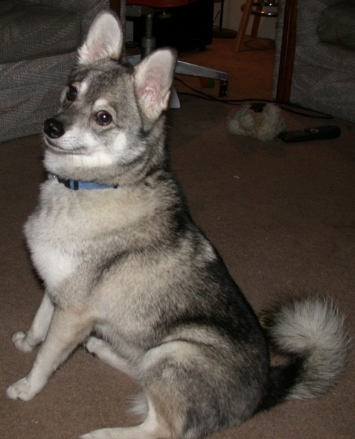 Alaskan_Klee_Kai Standard sized Alaskan Klee Kai. Picture taken by poster of his own dog with his digital camera